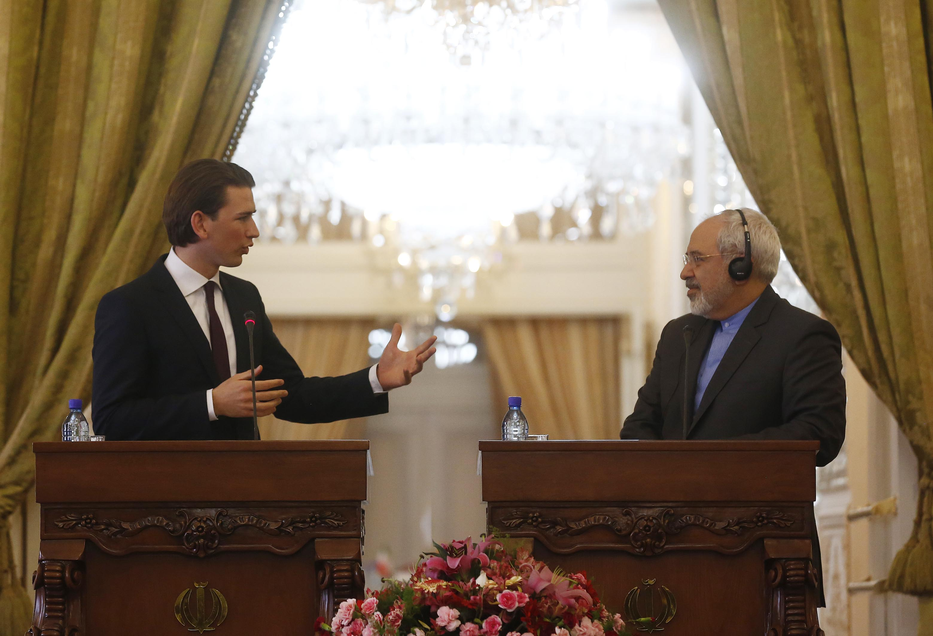 Mohammad Javad Zarif and Sebastian Kurz in a press conference in Tehran.